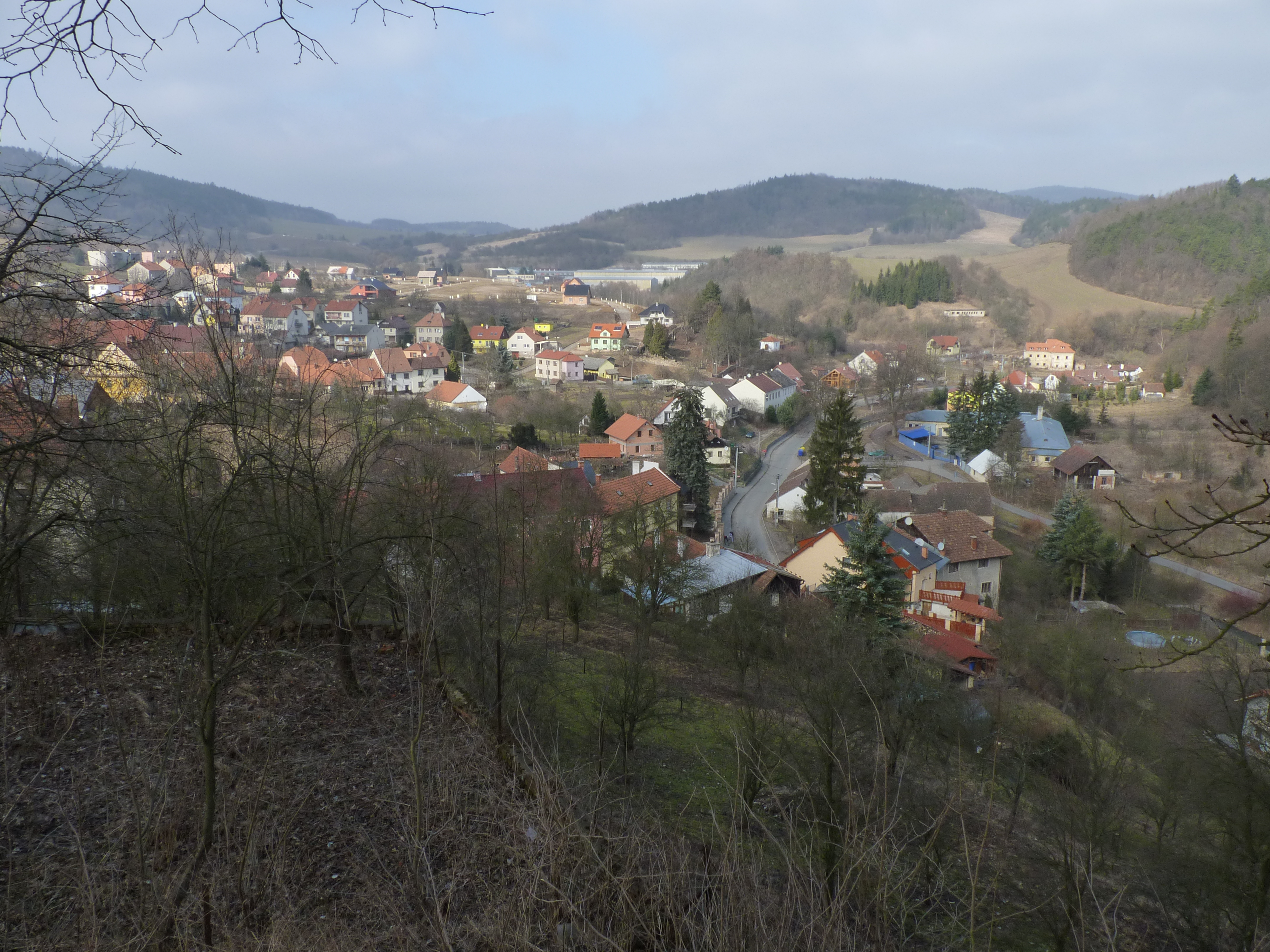 Lomnice, Brno-Country District, South Moravian Region, Czech Republic